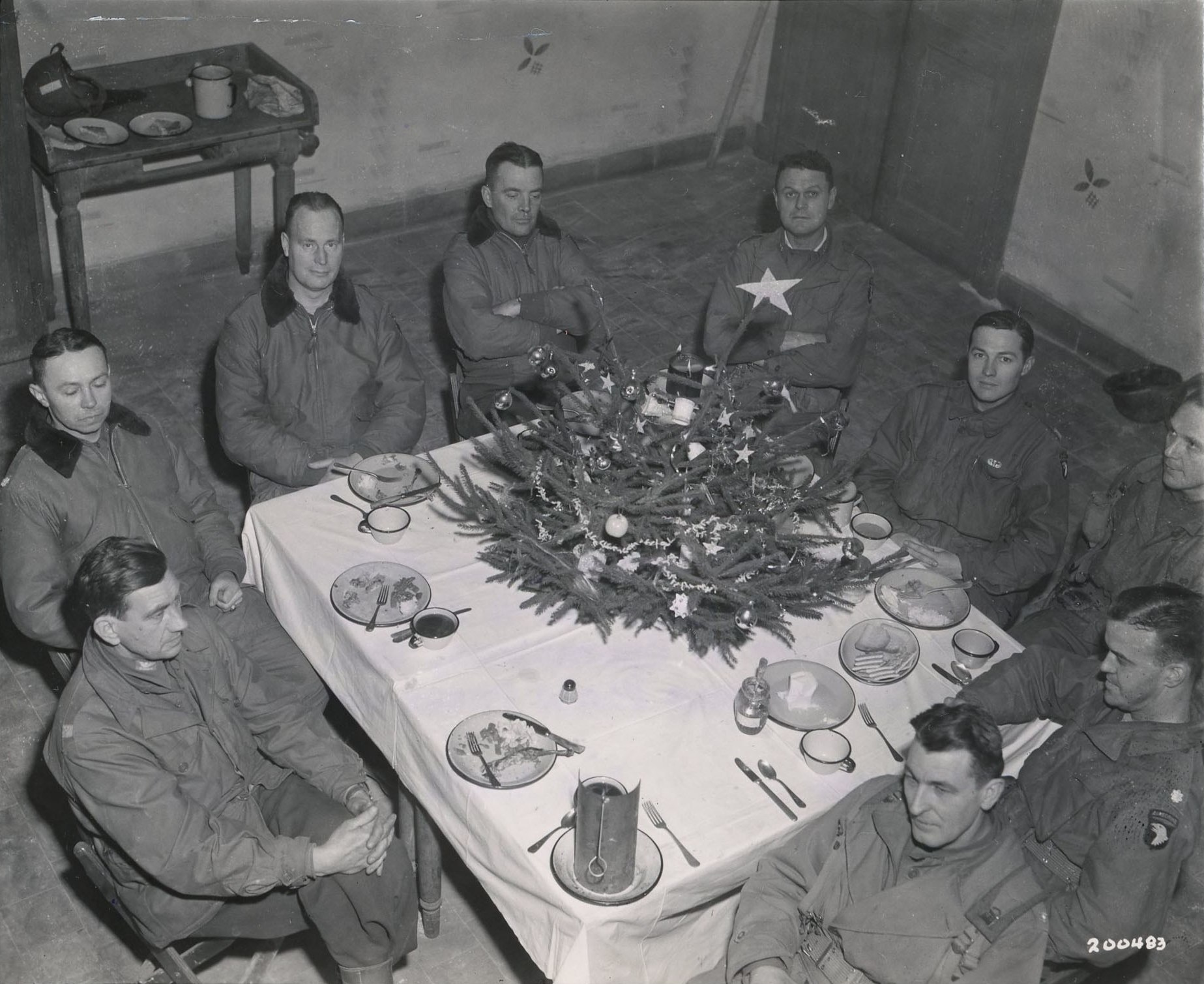 Brig. Gen. Anthony McAuliffe and his staff gathered inside Bastogne's Heintz Barracks for Christmas dinner Dec. 25th, 1944. This military barracks served as the Division Main Command Post during the siege of Bastogne, Belgium during WWII. The facility is now a museum known as the "Nuts Cave". (Photo Credit: U.S. Army)